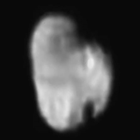 Image of Pluto's moon Hydra, taken by the New Horizons spacecraft on 14 July 2015